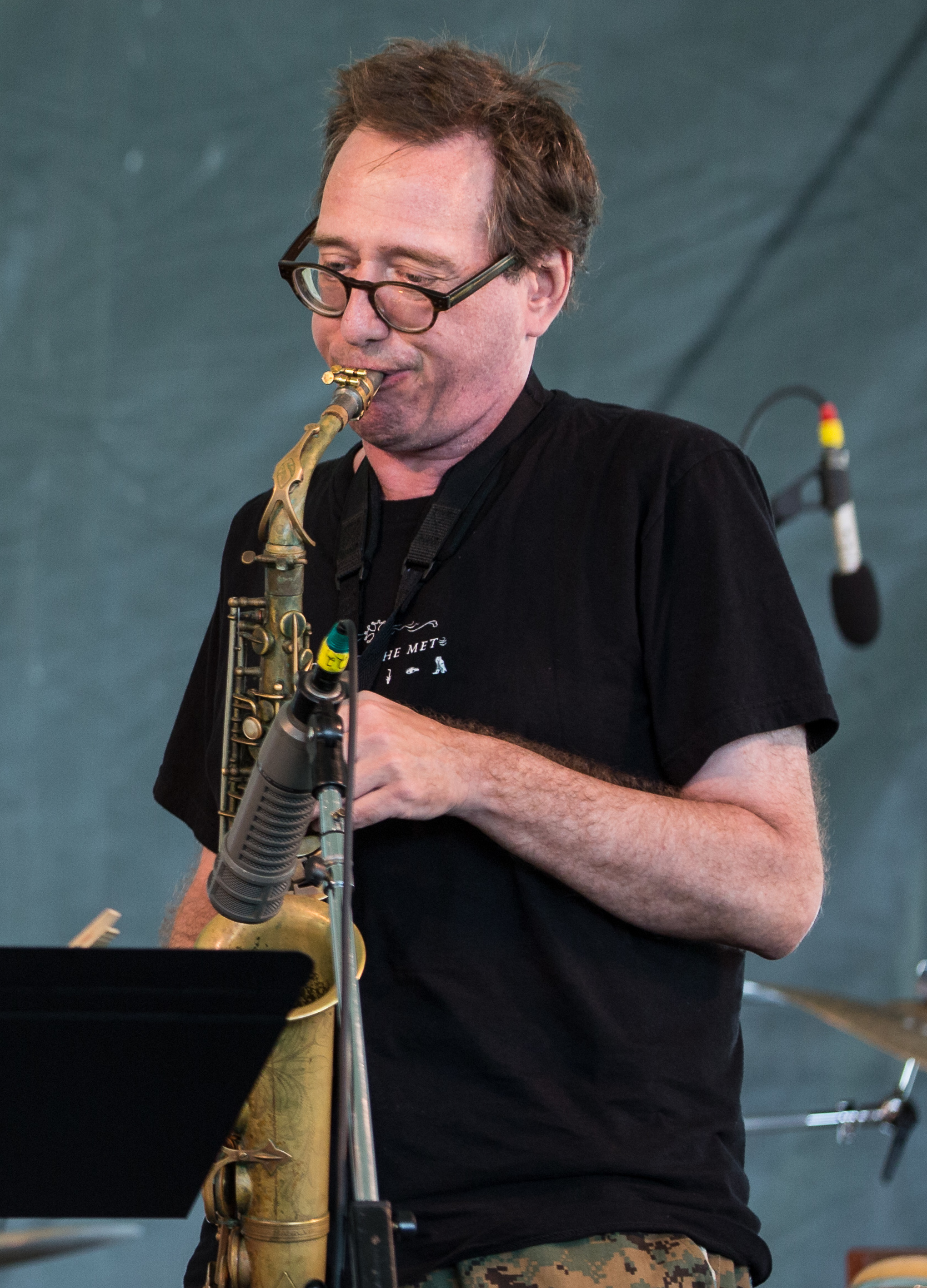 NEWPORT, RI - AUGUST 1: The 60th edition of the Newport Jazz Festival kicks off with a full day of programming, with John Zorn's Masada Marathon being the highlight of the day. Other acts include Mostly Other People Do The Killing, the world premiere of Rudresh Mahanthappa's Charlie Parker Project, Jon Batista&Stay Human, Darcy James Argue's Secret Society, Cécile McLorin Salvant, and the URI Jazz Festival Big Band. Shot on Friday, August 1, 2014.